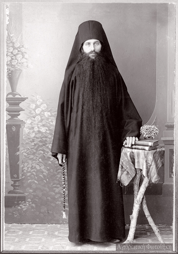 Athanasius of Zograf Self-Portrait